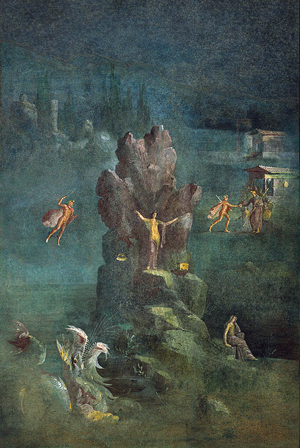 Landscape with Perseus and Andromeda: From the "Mythological Room" of the Imperial Villa at Boscotrecase. In the Metropolitan Museum of Art.